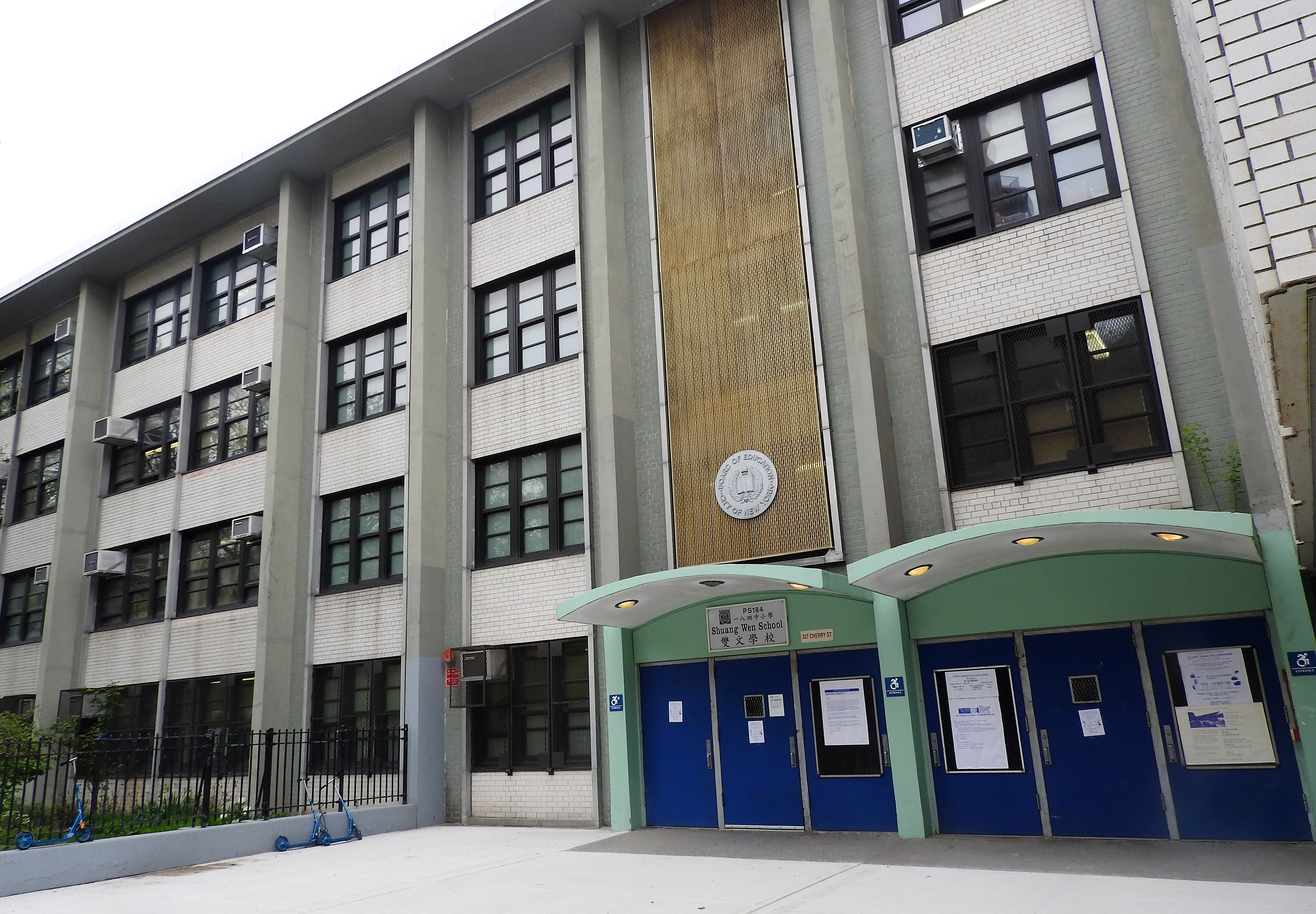 Looking southeast from Cherry Street on a cloudy day.